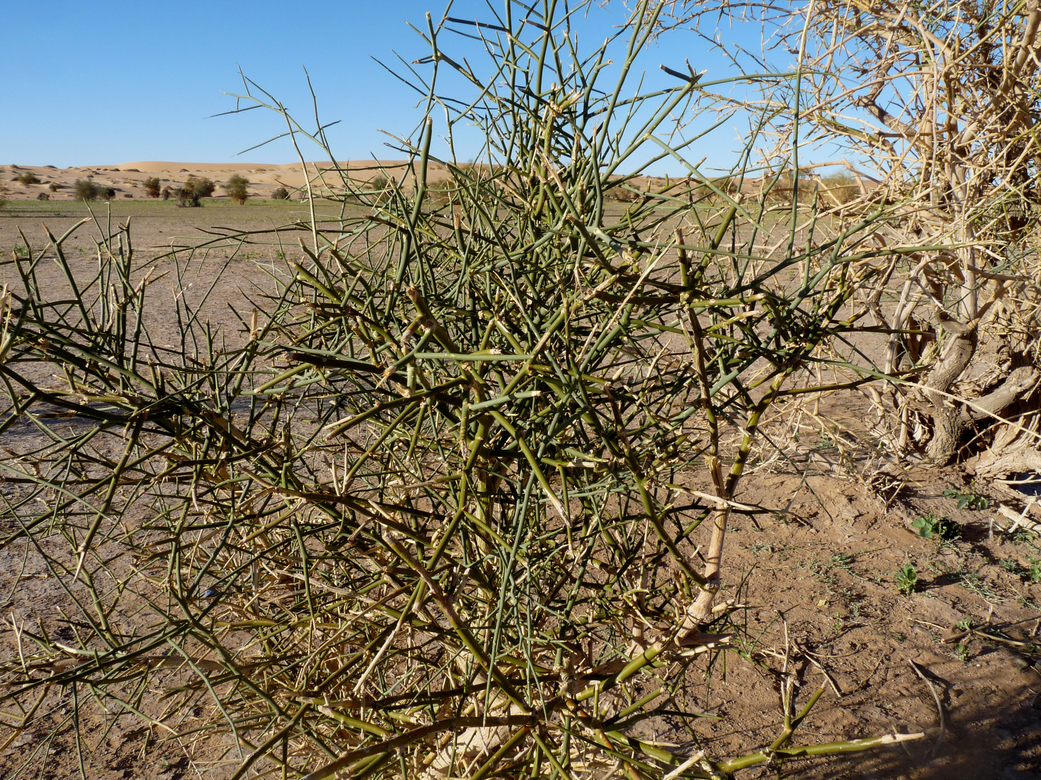 Balanites aegyptiaca near Zarga mountains (Adrar, Mauritania)